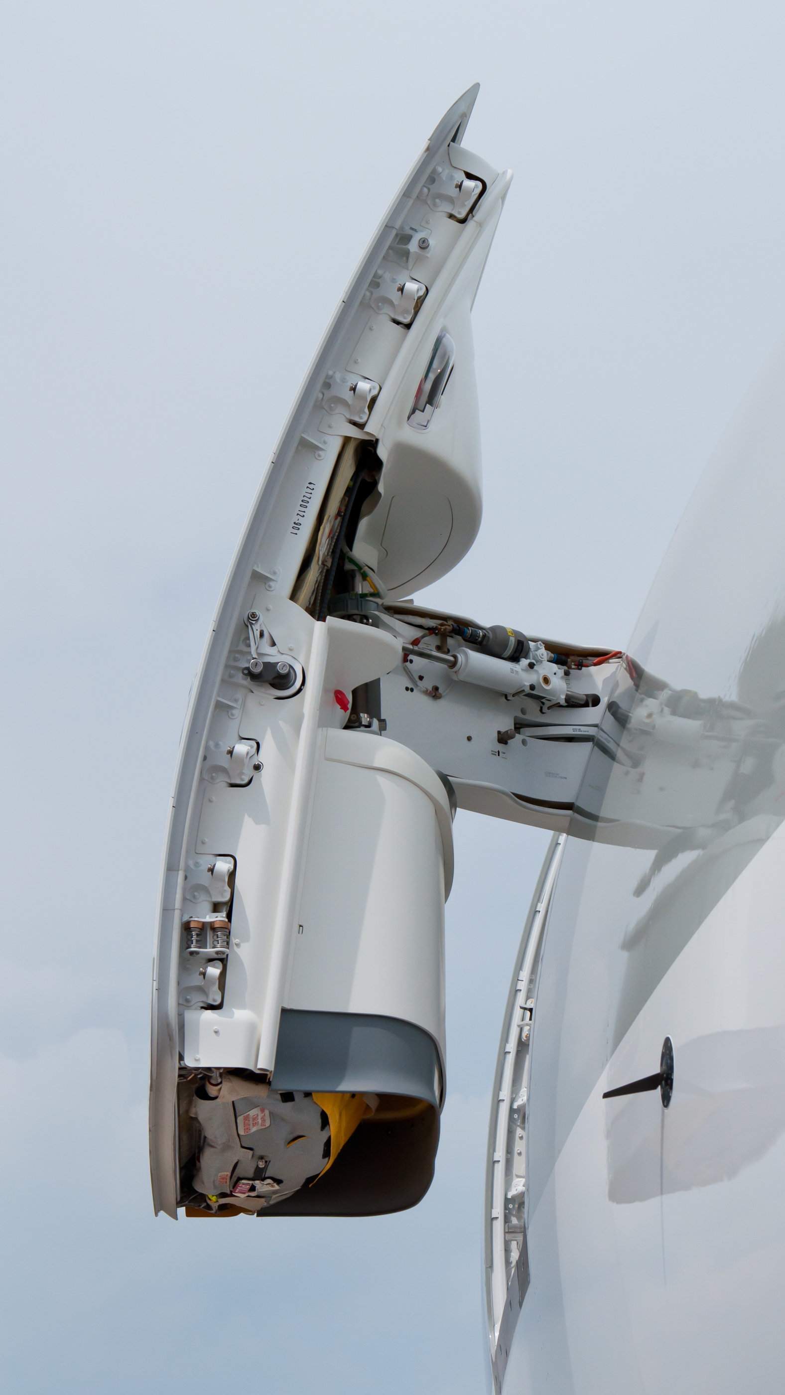 Front passenger door of the Qatar Airways Boeing 787 (reg. A7-BCD, c/n 38322/99) at Paris Air Show 2013.